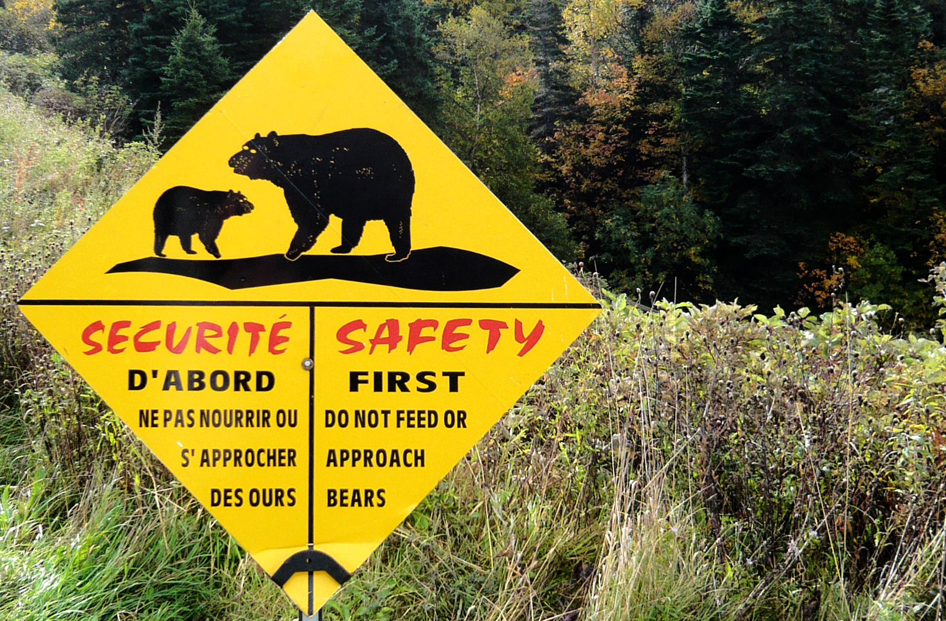 Bear warning sign. Forillon National Park, Gaspésie, Quebec, Canada